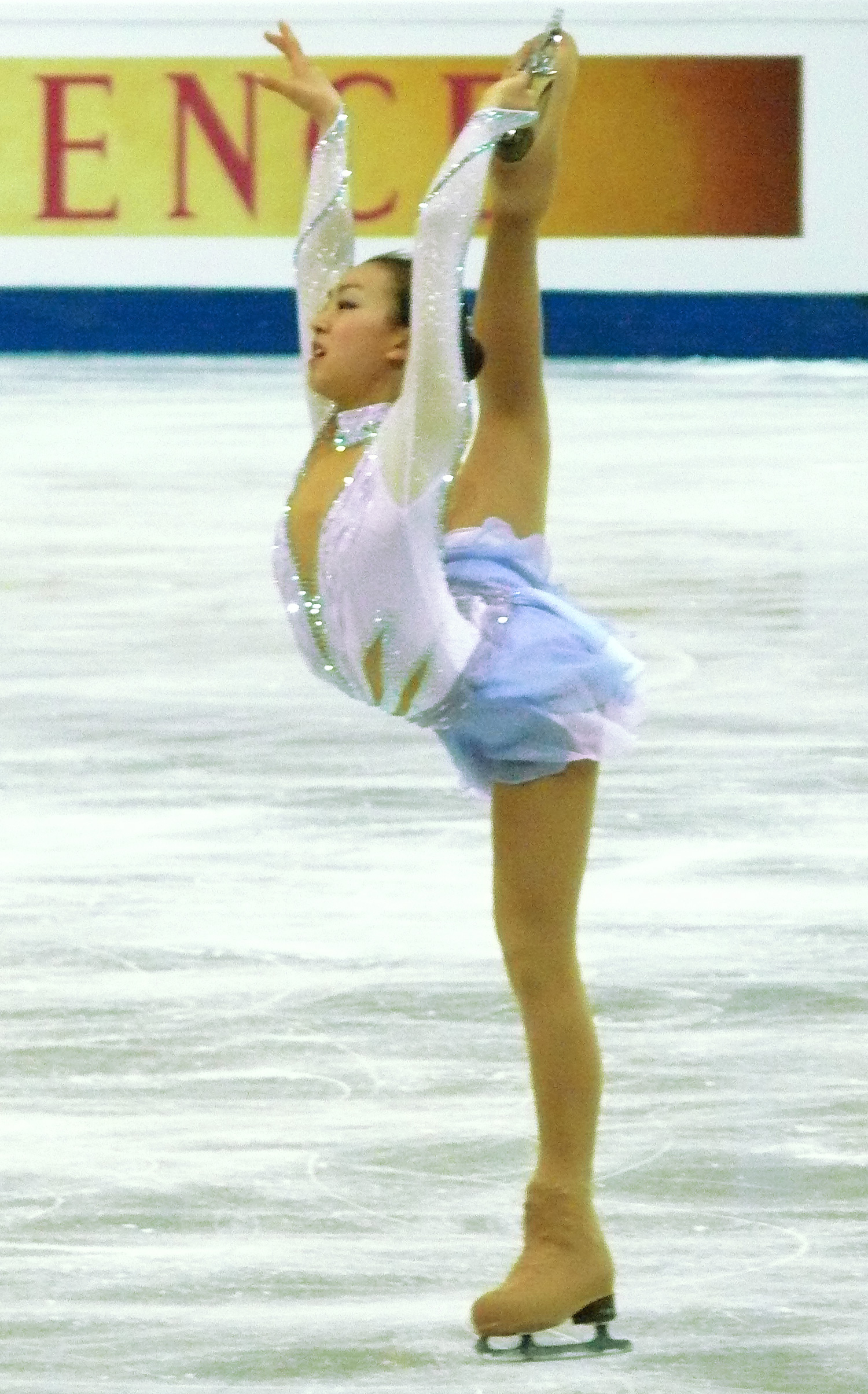 Mao Asada (JPN) at her short program at the World Championships 2008 in Figure Skating in Göteborg (SWE)